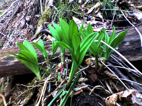 These are the Japanese wild herbs called "Gyoujya-ninniku", "Hitobiro" or "Ainu-negi" (Allium ochotense Prokh.). These wild herbs were gathered in Hokkaido, Japan. They are natural edible wild plants.